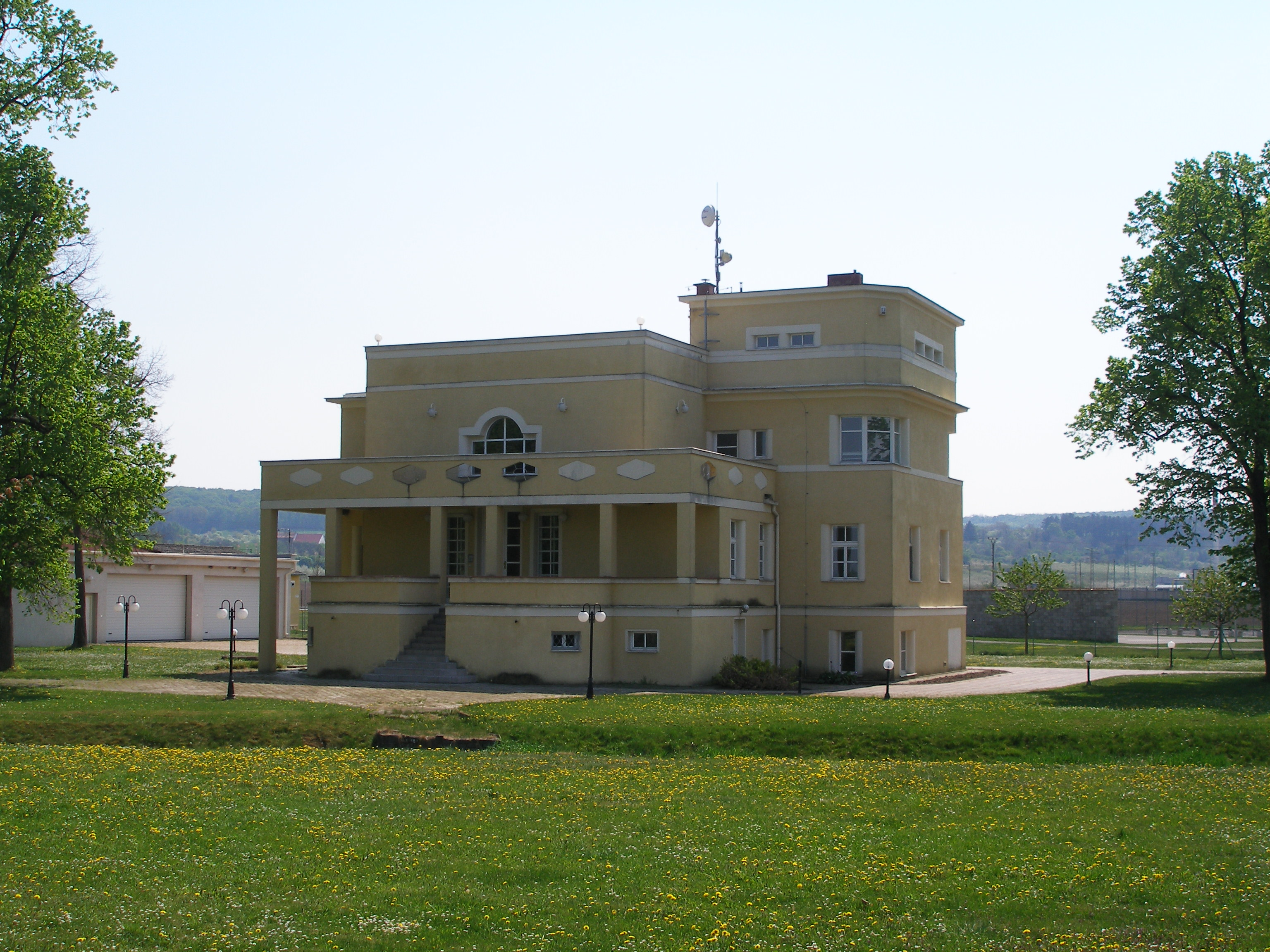 Summer villa Prague architect Beno Kabát in Dobříň, the father of Czech actress Zita Kabátová.